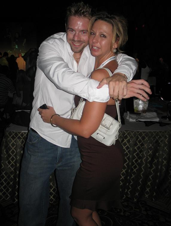 Erik Everhard, Brianna Beach at Internext convention, August 3, 2007